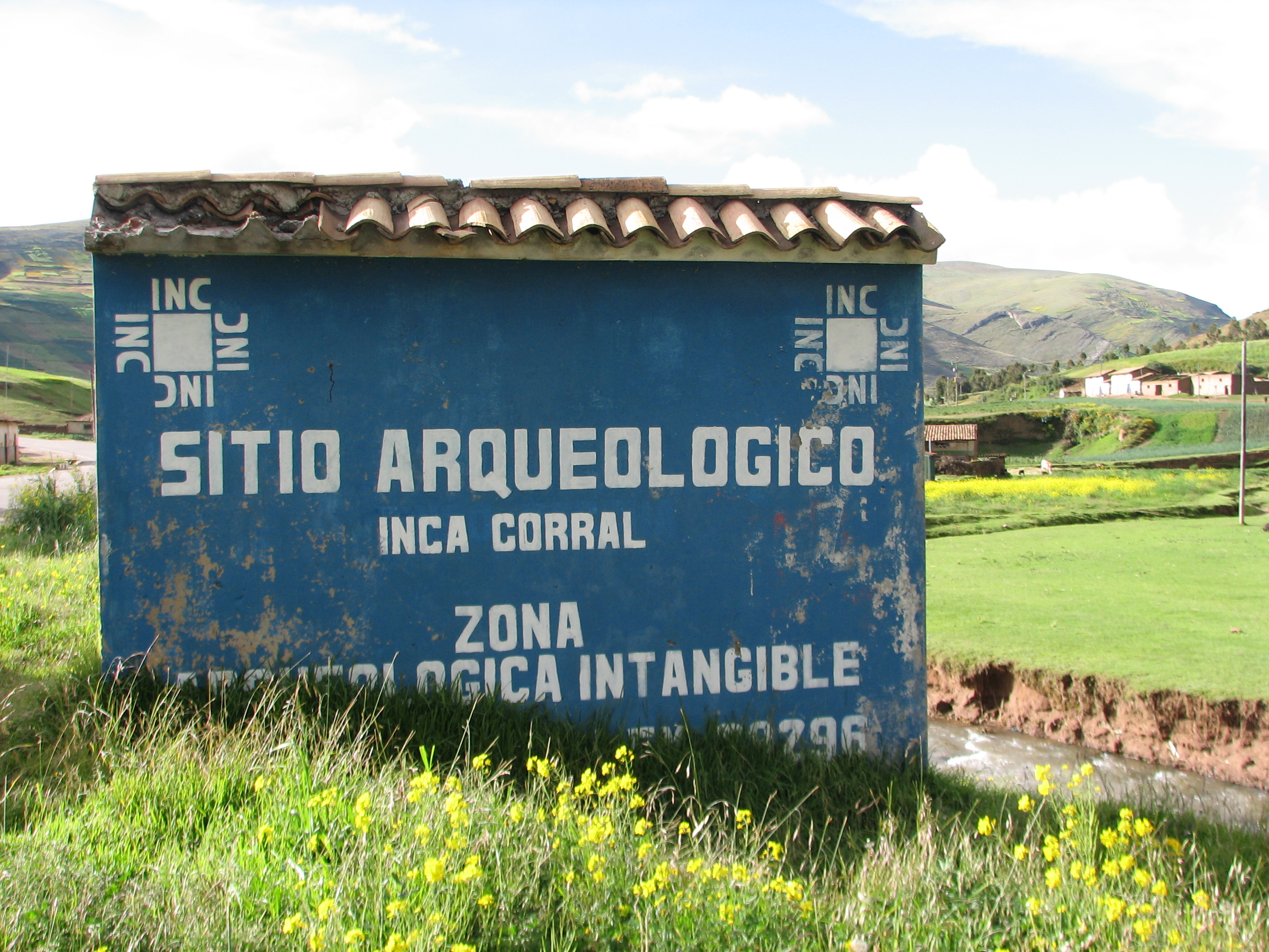 INC (National Institue of Culture) Sign at complex Inca Corral, Junín, Peru.